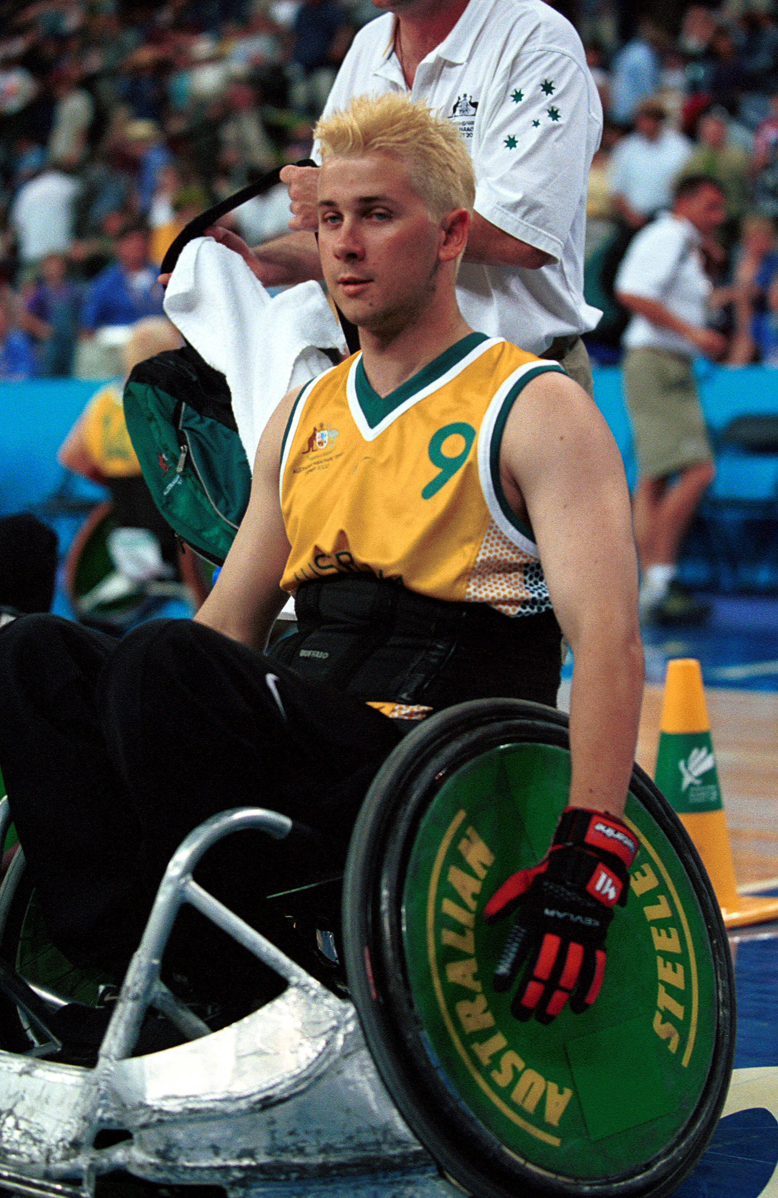 Shot of Australian wheelchair rugby "Steelers" player Patrick Ryan post match at the 2000 Sydney Paralympic Games